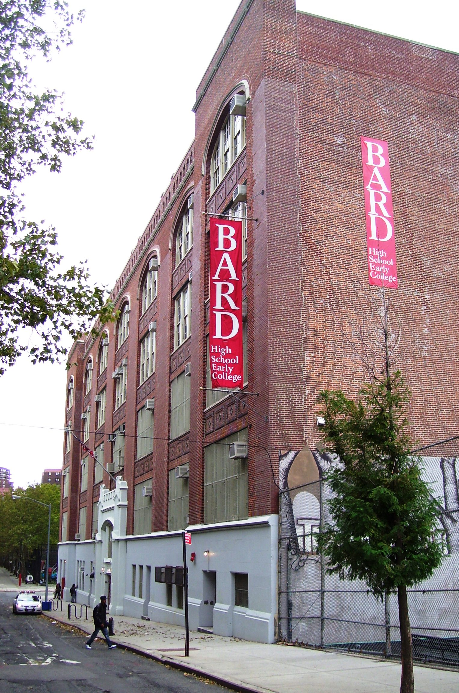 Bard High School Early College (HS696) at 525 Houston Street, Manhattan, New York City, is a cooperative venture between Bard College and the NYC Department of Education.